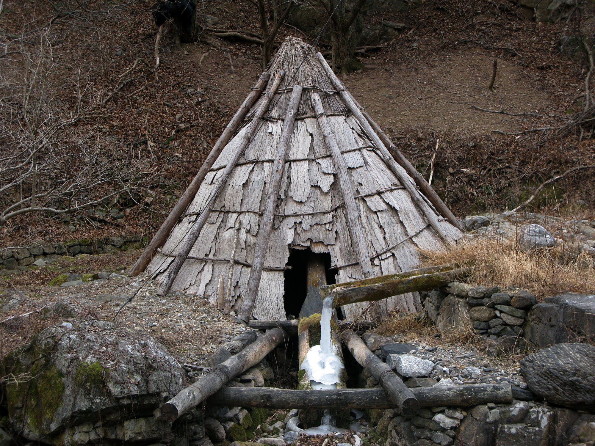 Tongbang'a (A kind of Watermill, at Daeyi-ri, Singi-myeon, Samcheok, Gangwon-do)